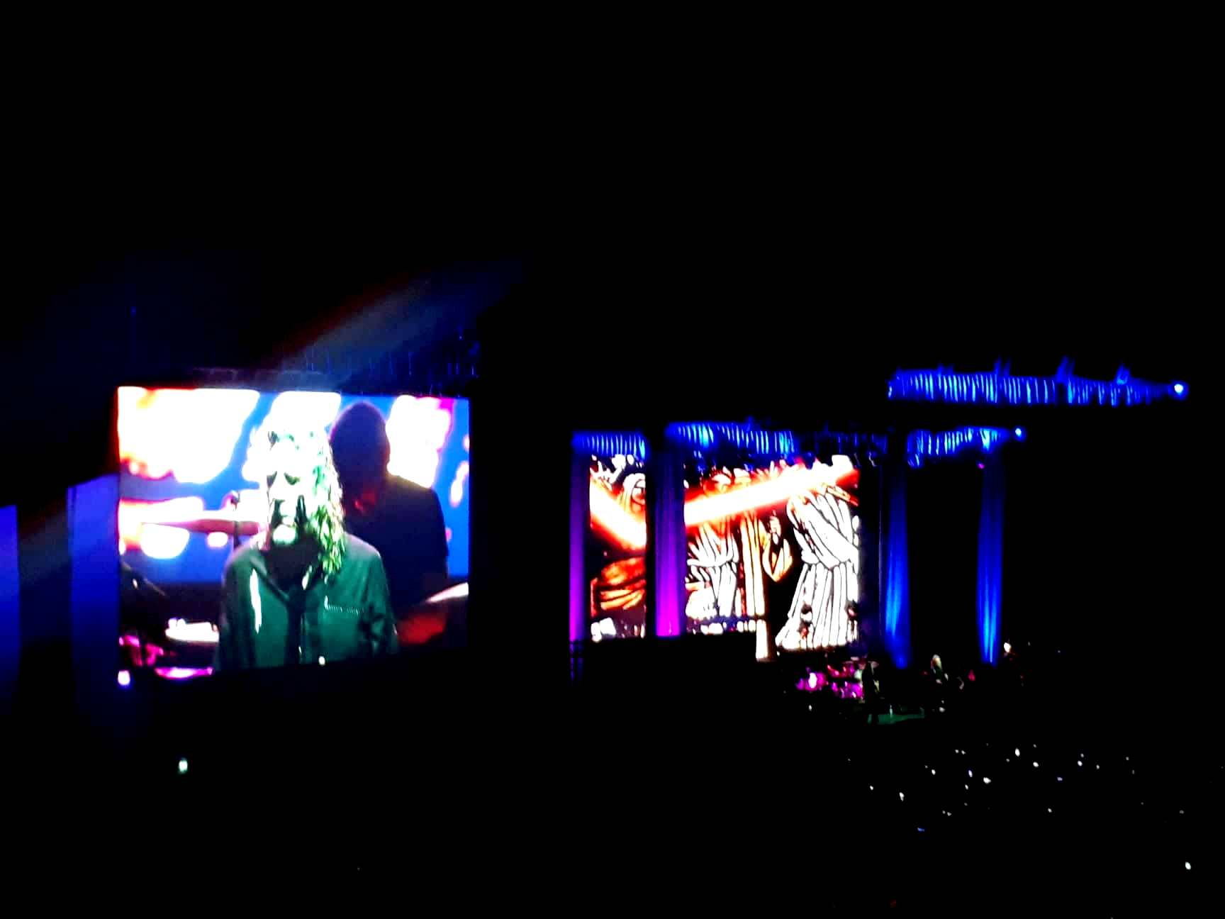 Robert Plant and the Sensational Space Shifters, performing at the Black Sea Jazz Festival at the Black Sea Arena venue in Georgia.